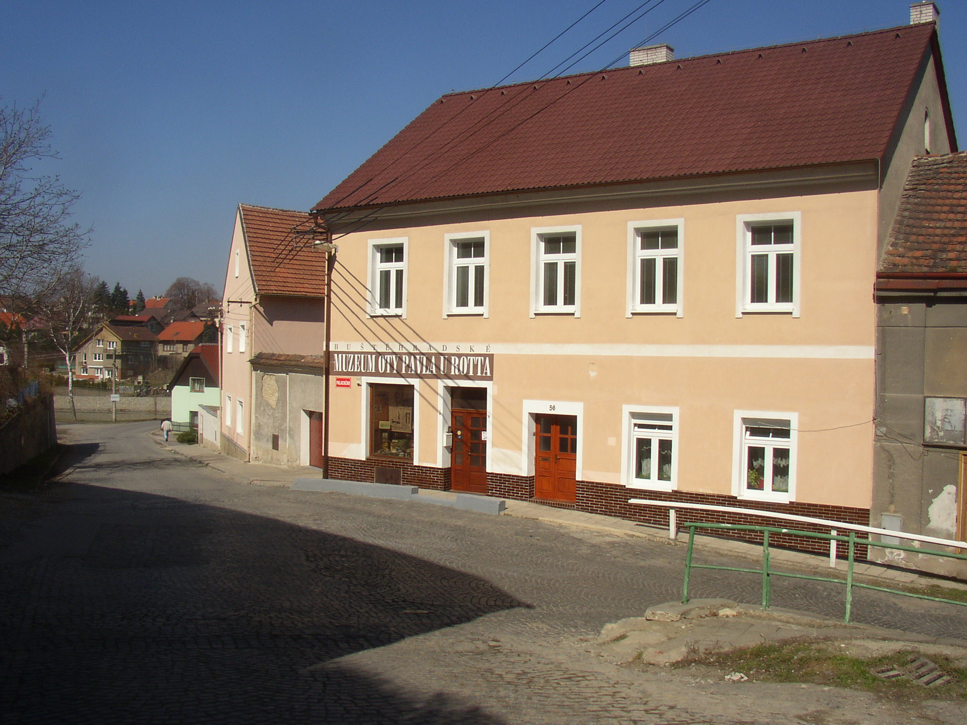 Museum of writer Ota Pavel in Buštěhrad, Czech Republic.